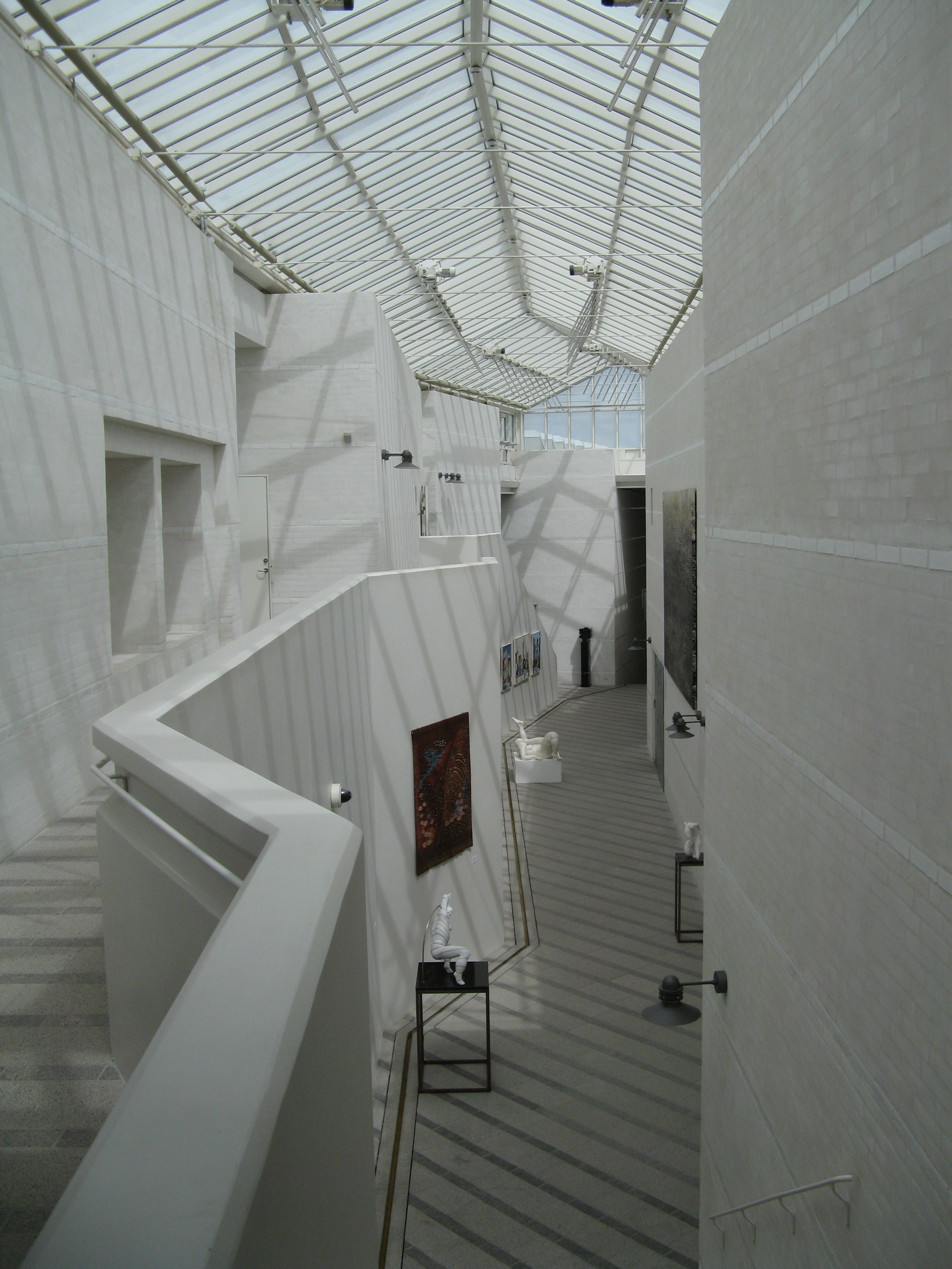 Bornholms Kunstmuseum